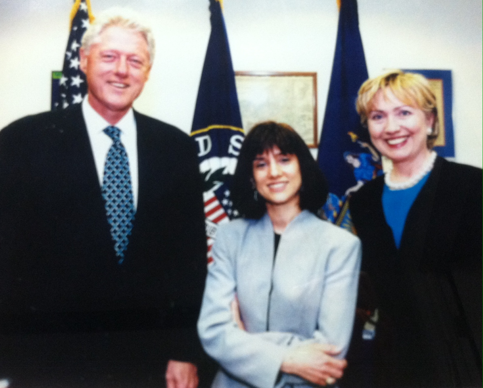 Judge Rachel Freier meets with President Bill Clinton & Hillary Clinton